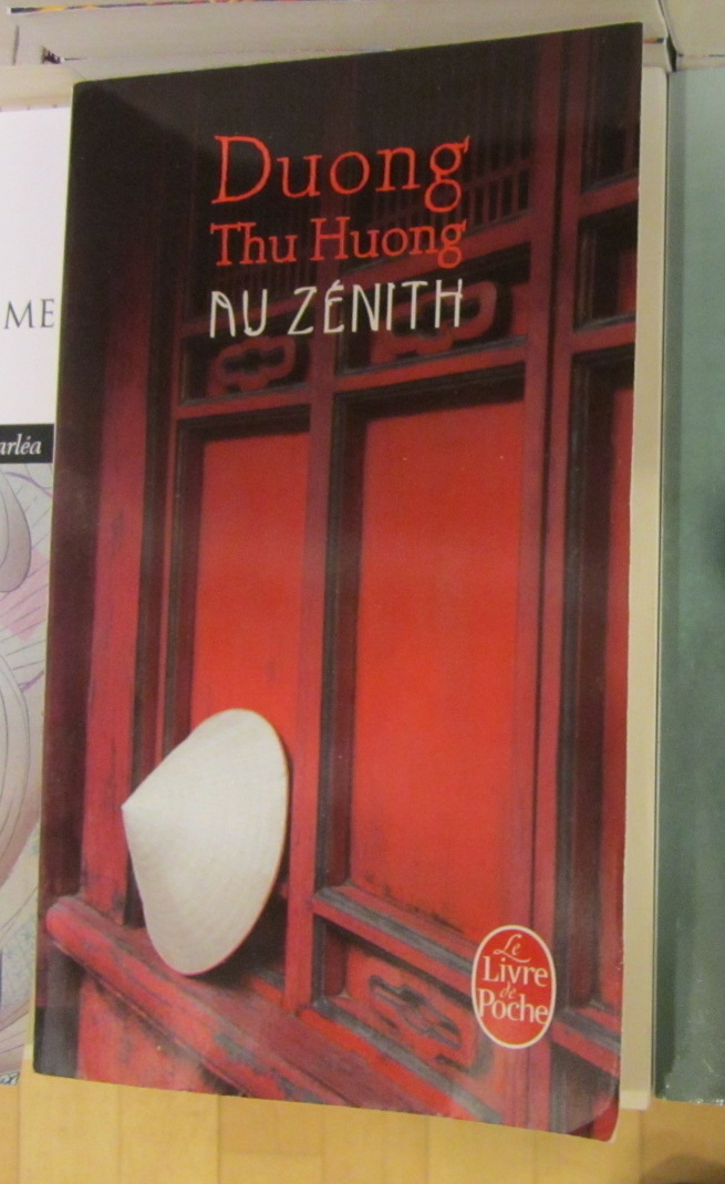 2009 novel by Dương Thu Hương